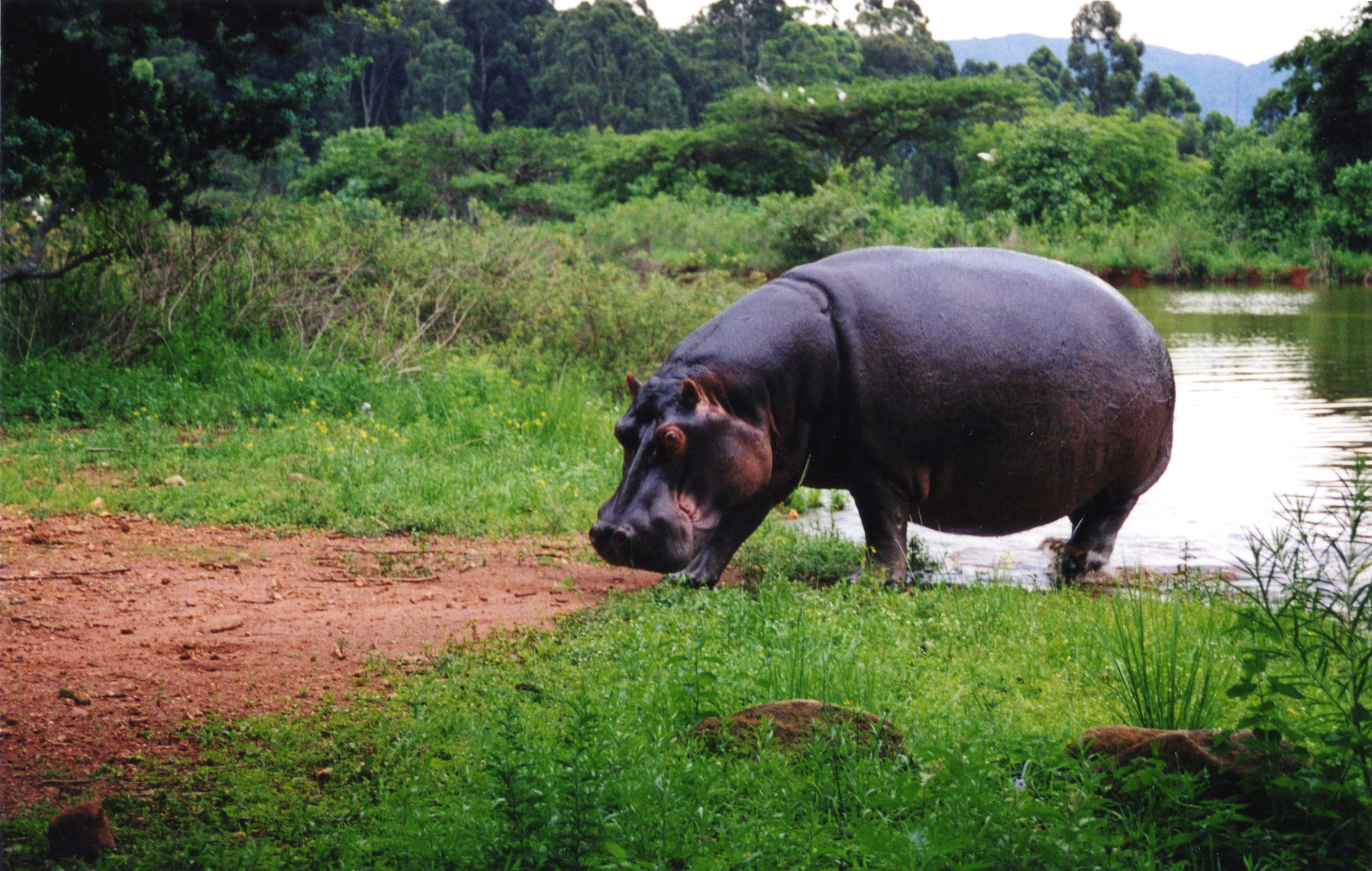 Hippo, Swaziland. A hippo in Mlilwane Wildlife Sanctuary, Swaziland, Swaziland.